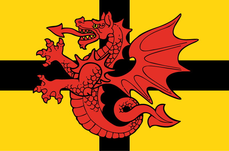 Flag of Tregor (Brittany)